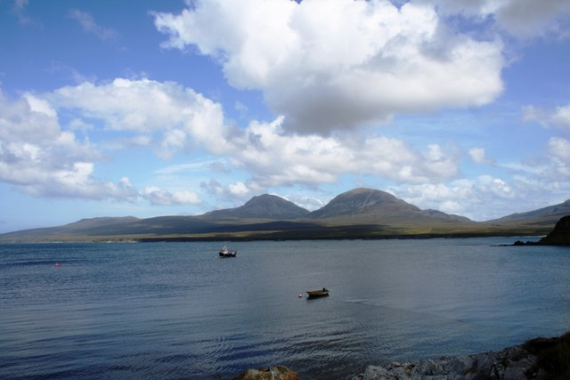 Sound of Islay The sound of Islay from Bunnahabhain with the Paps of Jura on the other side.